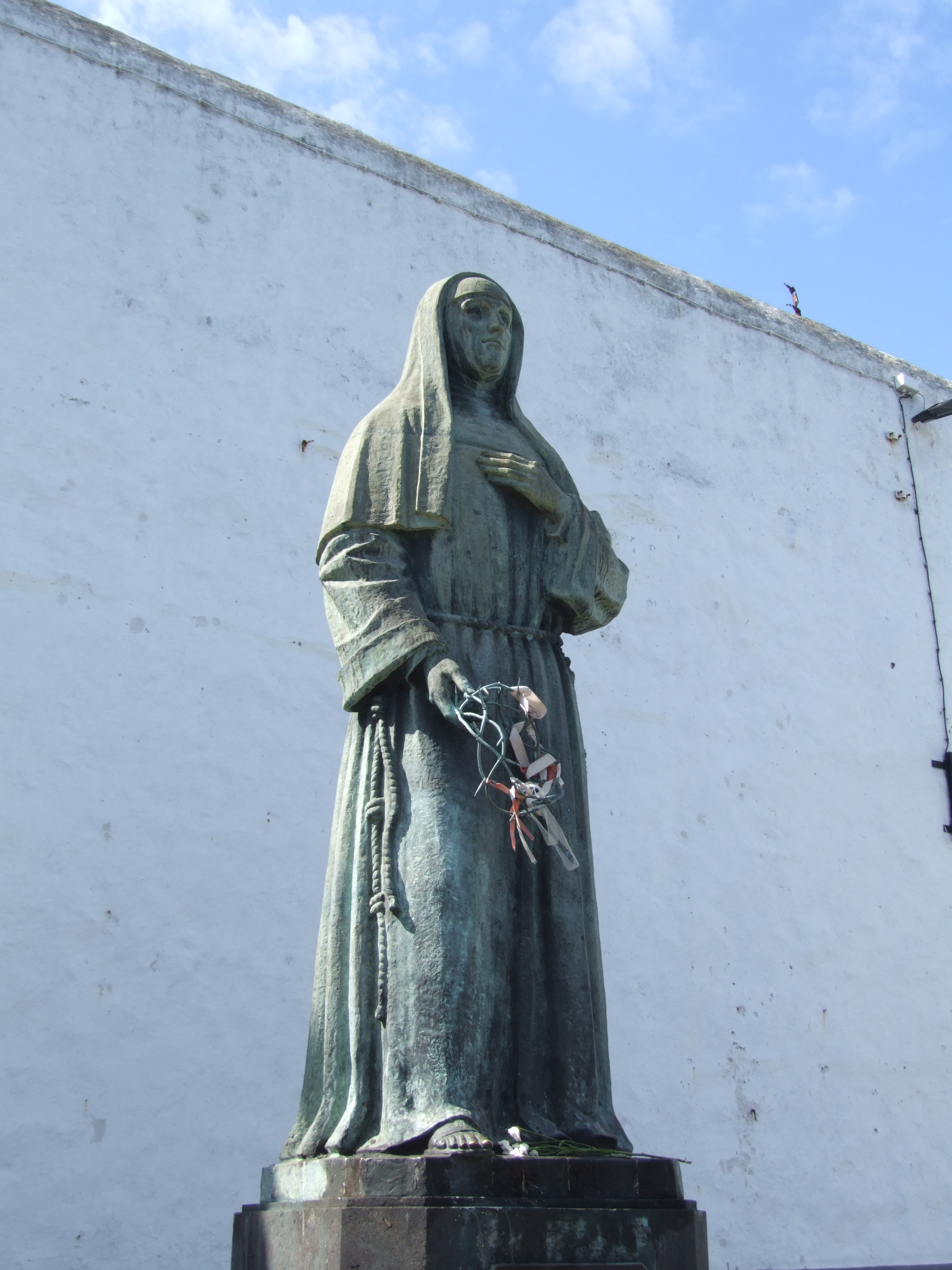 Ponta Delgada, Sao-Miguel, Azores, Portugal